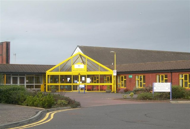 Biggart Hospital, Prestwick This NHS hospital specialises in care of the elderly and rehabilitation of, for example, stroke victims.